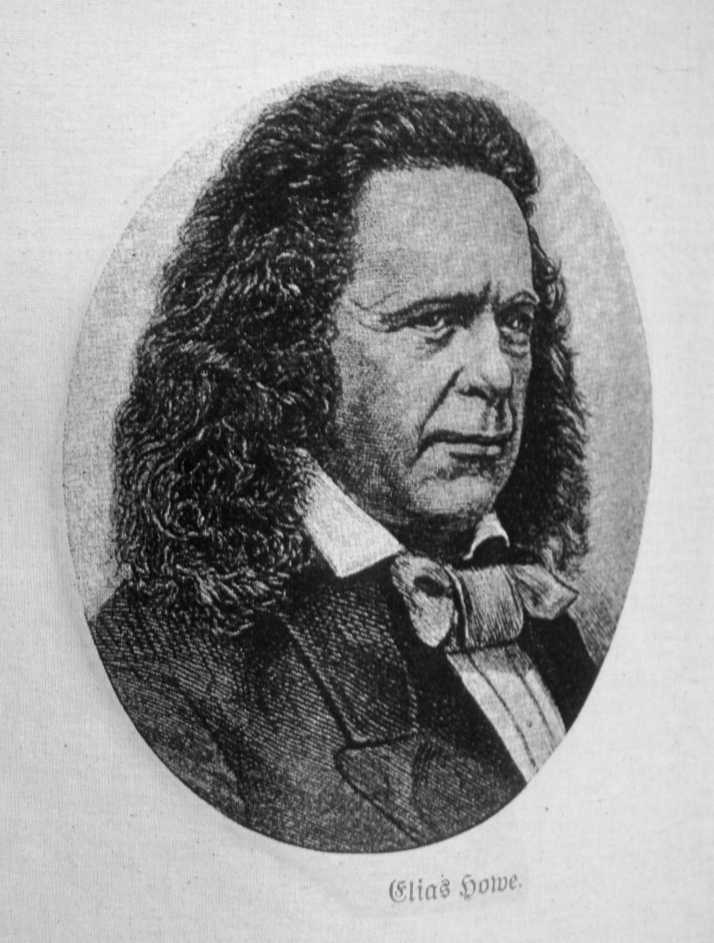 Portrait of Elias Howe Image on textile in Sewing Machine Museum Sommerfeld /Kremmen